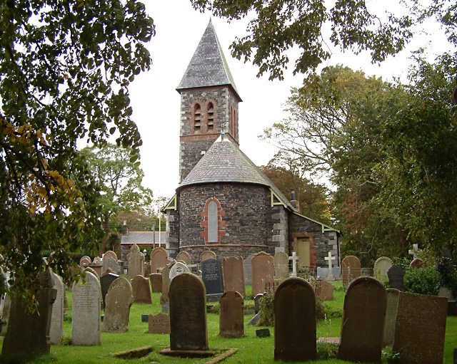 Bride Church - Isle of Man. Bride is a small village in the very north of the Isle of Man.